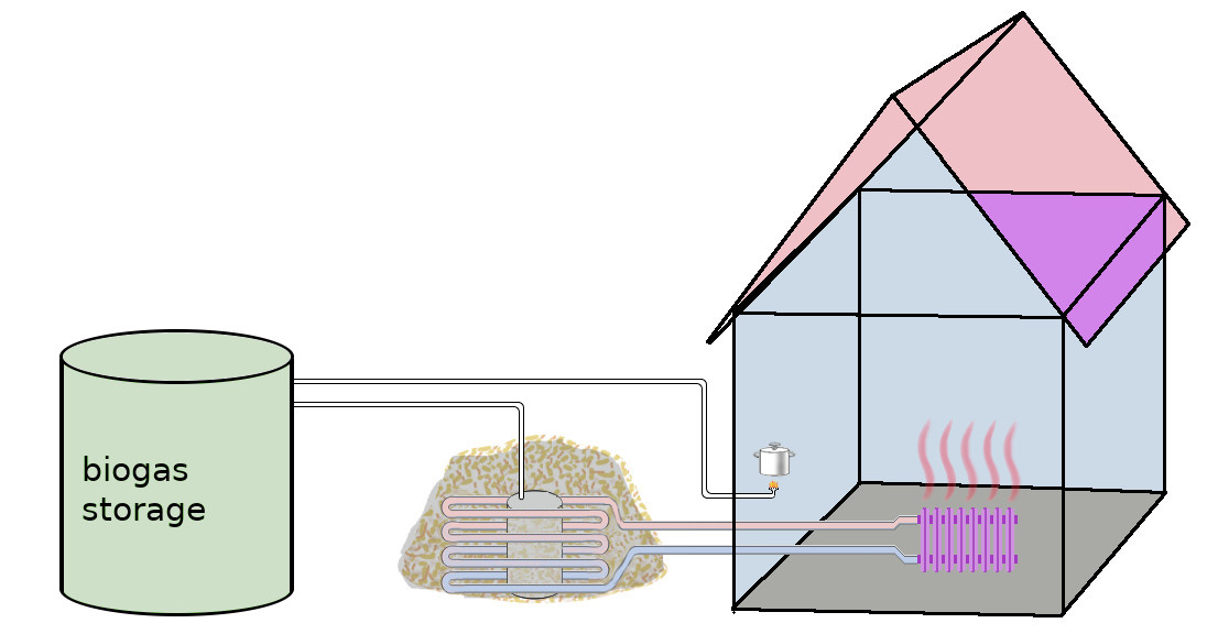 Schematic of the Jean Pain system.